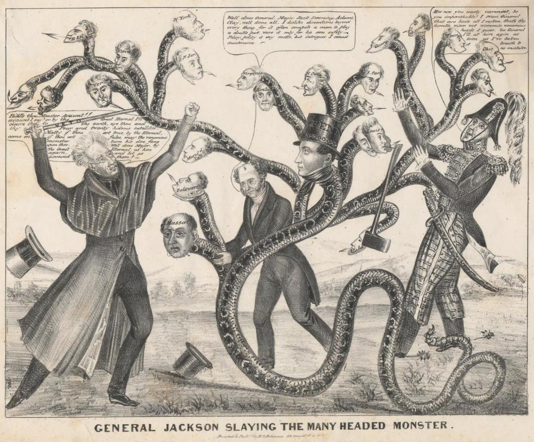 A satire on Andrew Jackson's campaign to destroy the Bank of the United States and its support among state banks. Jackson, Martin Van Buren, and Jack Downing struggle against a snake with heads representing the states. Jackson (on the left) raises a cane marked "Veto" and says, "Biddle thou Monster Avaunt!! avaount I say! or by the Great Eternal I'll cleave thee to the earth, aye thee and thy four and twenty satellites. Matty if thou art true...come on. if thou art false, may the venomous monster turn his dire fang upon thee..." Van Buren: "Well done General, Major Jack Downing, Adams, Clay, well done all. I dislike dissentions beyond every thing, for it often compels a man to play a double part, were it only for his own safety. Policy, policy is my motto, but intrigues I cannot countenance." Downing (dropping his axe): "Now now you nasty varmint, be you imperishable? I swan Gineral that are beats all I reckon, that's the horrible wiper wot wommits wenemous heads I guess..." The largest of the heads is president of the Bank Nicholas Biddle's, which wears a top hat labeled "Penn" (i.e. Pennsylvania) and "$35,000,000." This refers to the rechartering of the Bank by the Pennsylvania legislature in defiance of the adminstration's efforts to destroy it.